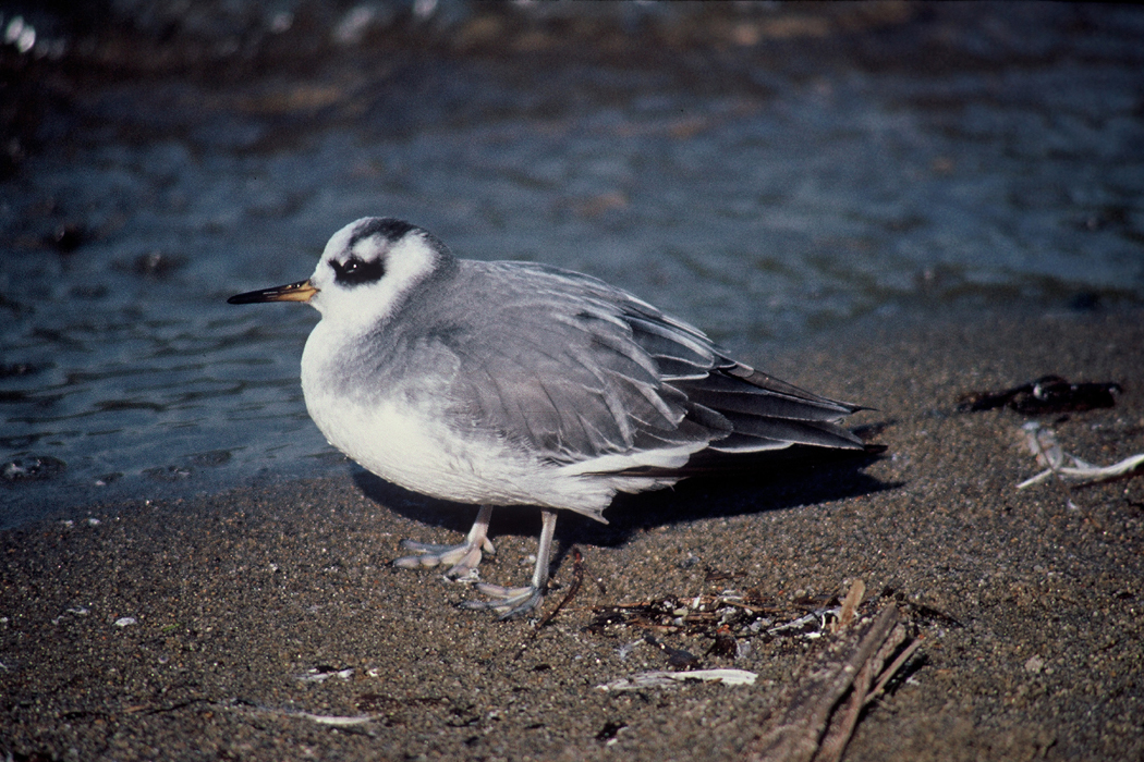 Red Phalarope (Phalaropus fulicarius)